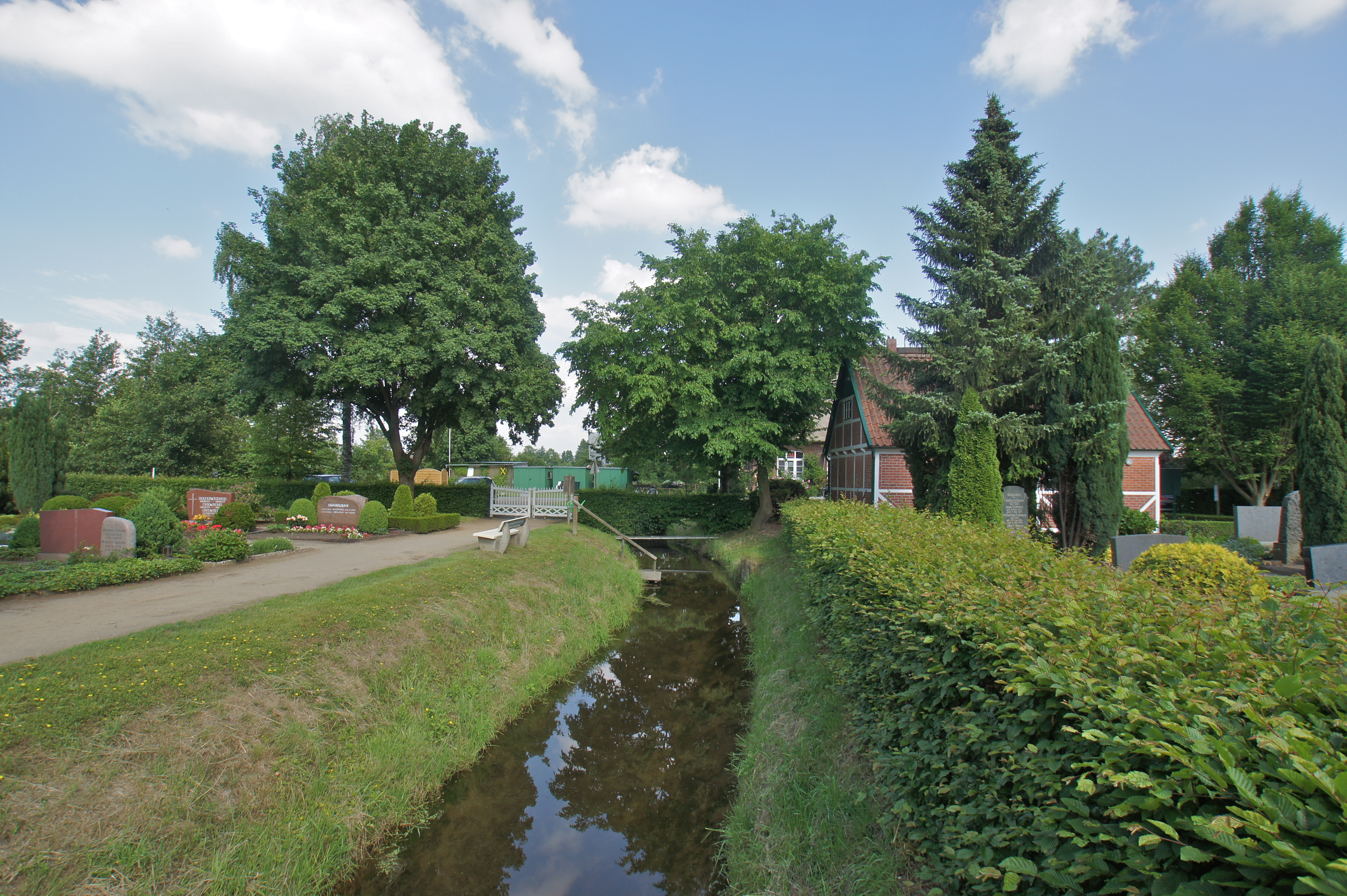 Hamburg (Altengamme), Germany: Wettern through the cemetery